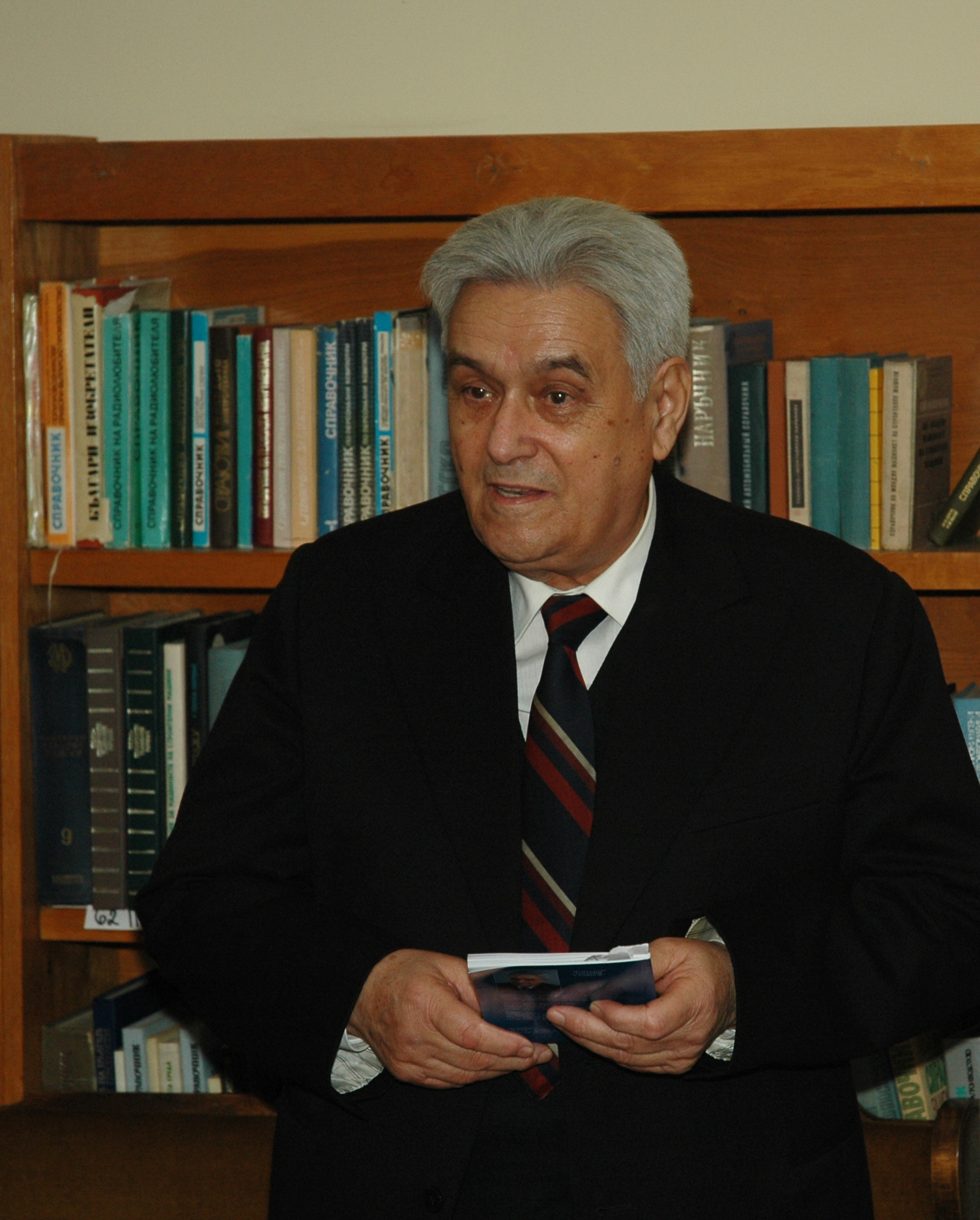 Todor Tashev